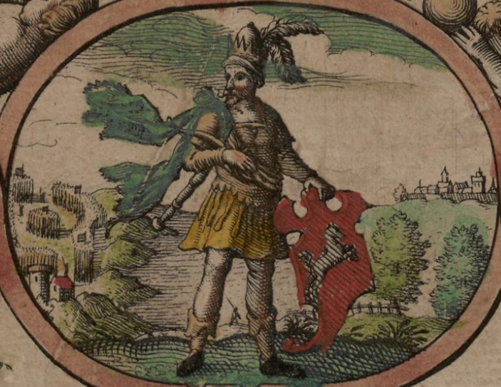 Hengest of Kent